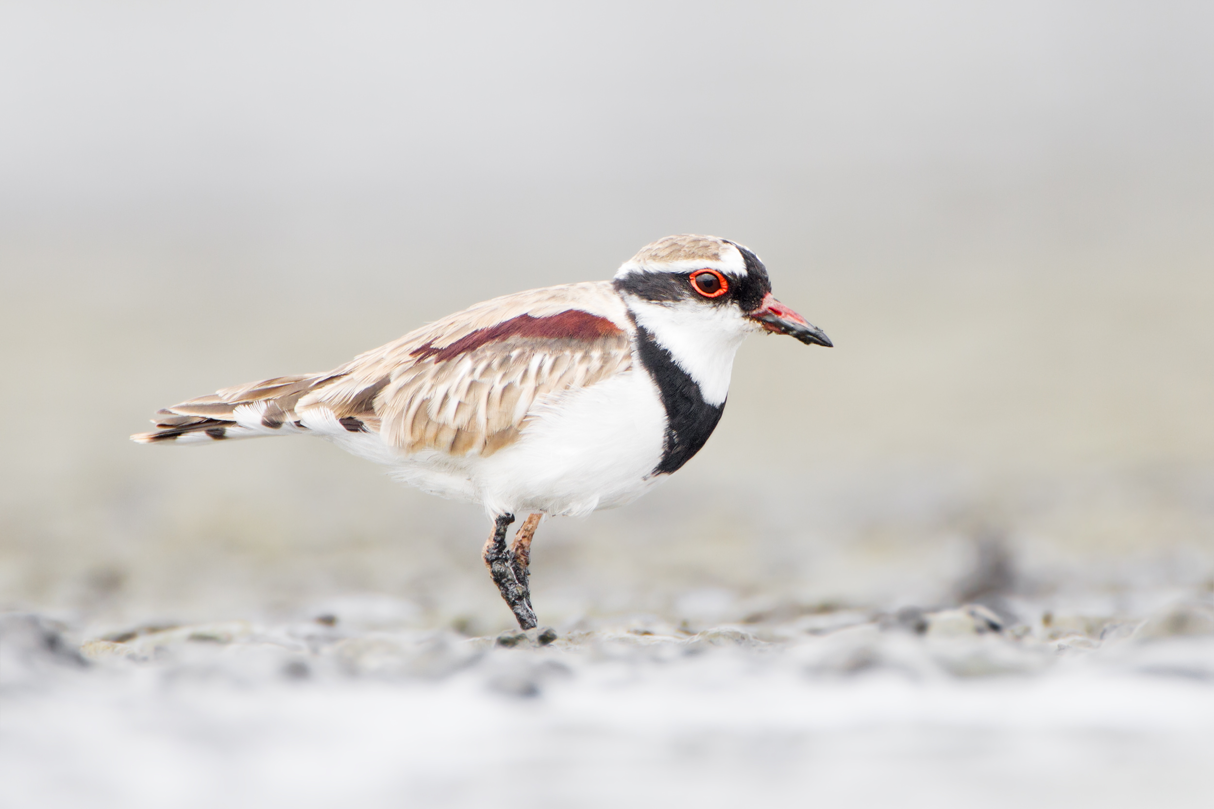 Black-fronted Dotterel (Elseyornis melanops), Fyshwick Sewage Treatment Plant, Canberra, Australia